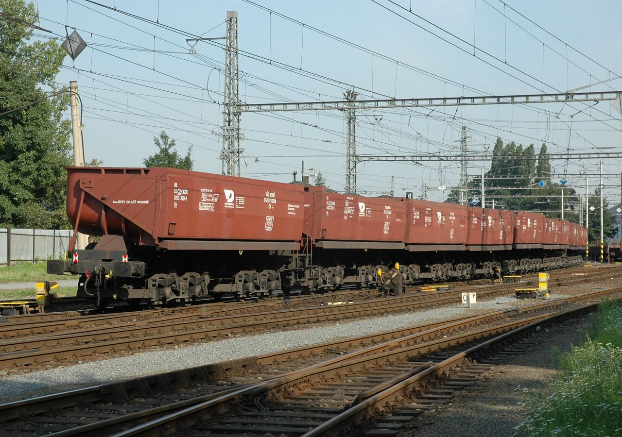 Wagons of the type LH40 owned by OKD, Doprava railway operator, station Ostrava hlavní nádraží, Czech Republic